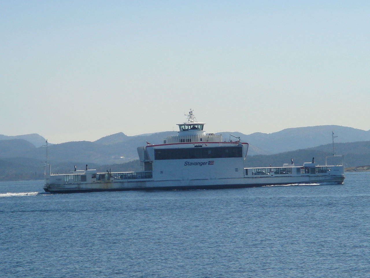 The car ferry M/F Stavanger on the route between Stavanger and Tau in Norway